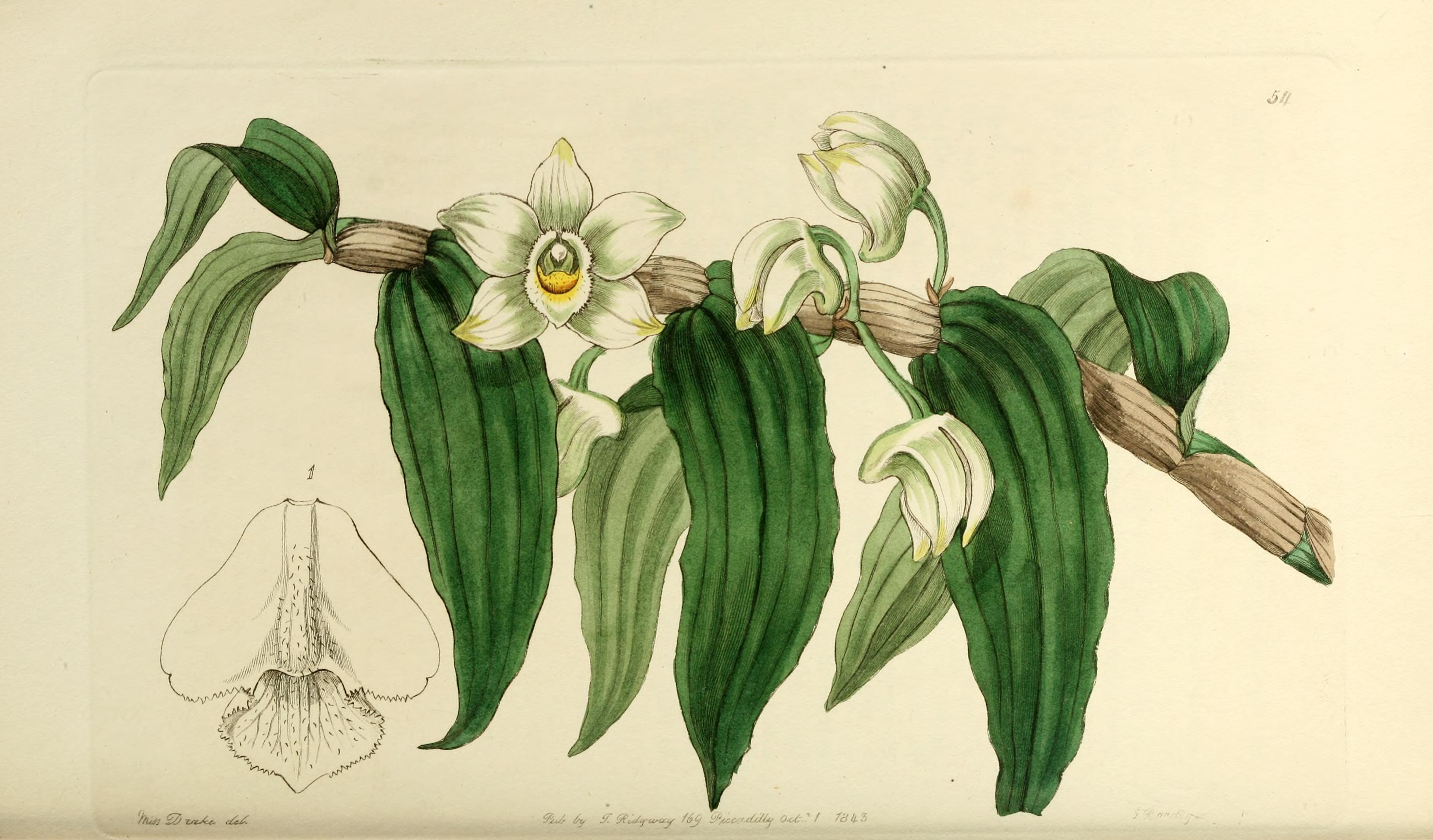 Title: Edwards' botanical register, or, Ornamental flower-garden and shrubbery .. Year: 1829-1847 (1820s) Authors: Edwards, Sydenham, 1769?-1819; Lindley, John, 1799-1865 Subjects: Plants, Ornamental -- Great Britain; Plants, Ornamental -- Great Britain; Plant introduction -- Great Britain; Alien plants -- Great Britain; Botanical illustration -- Great Britain; Botanical illustration -- Great Britain; Plants; Plants Publisher: London : James Ridgway Text Appearing Before Image: ' Text Appearing After Image: i